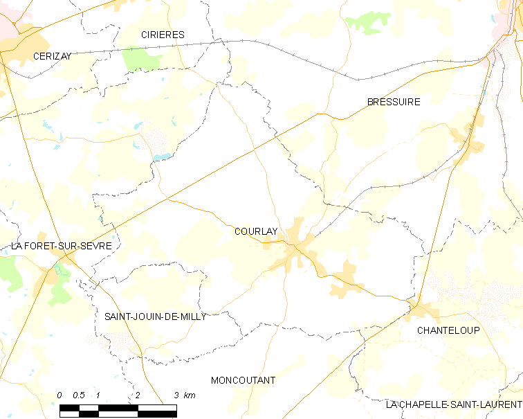 Map of French municipality Courlay